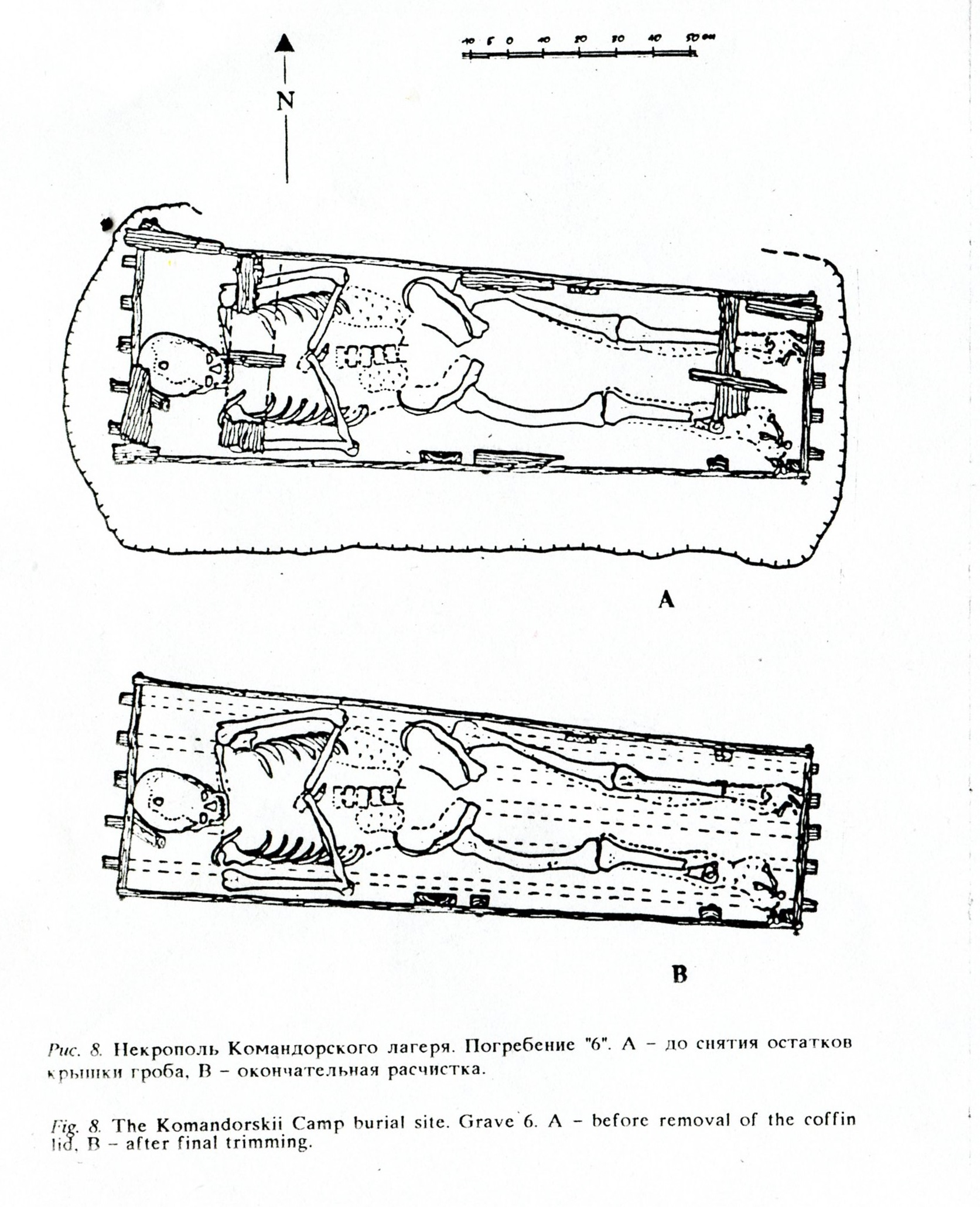 Burial of Vitus Bering